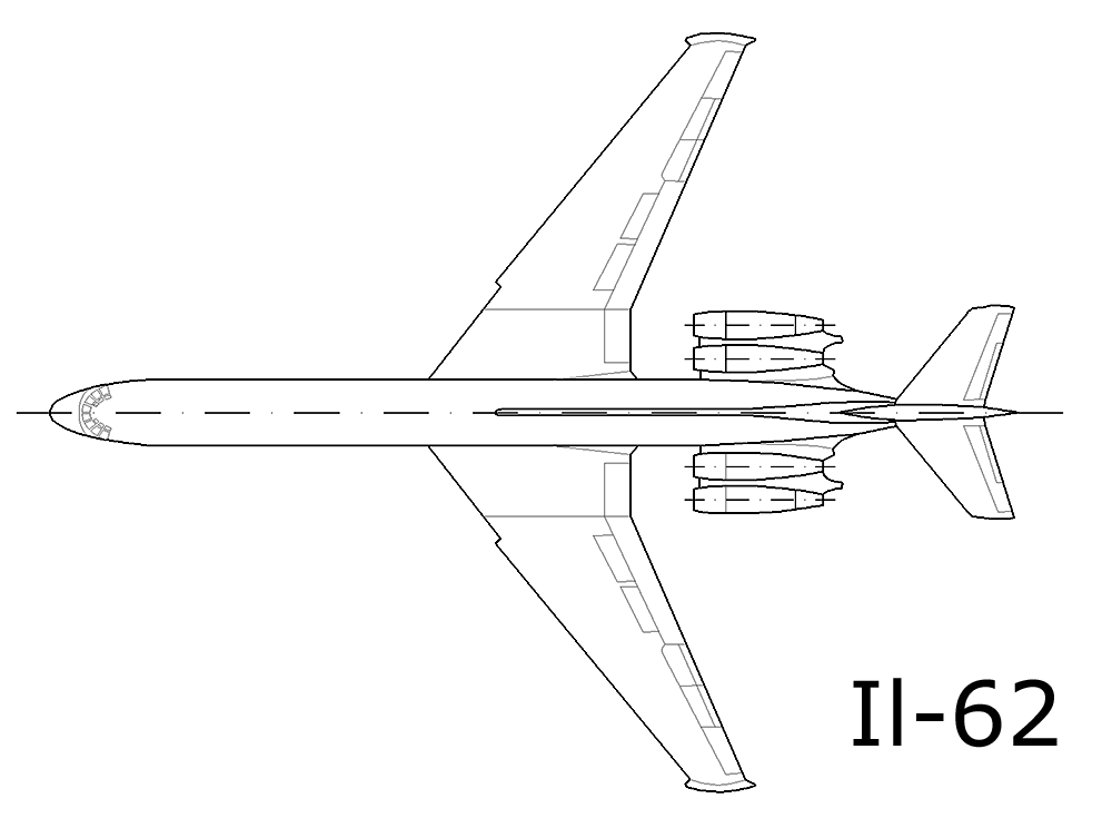 Layout of Ilyushin Il-62